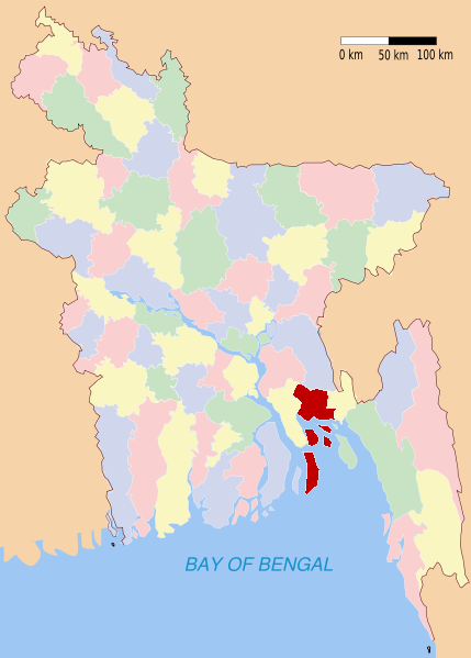 District locator map in red in Bangladesh